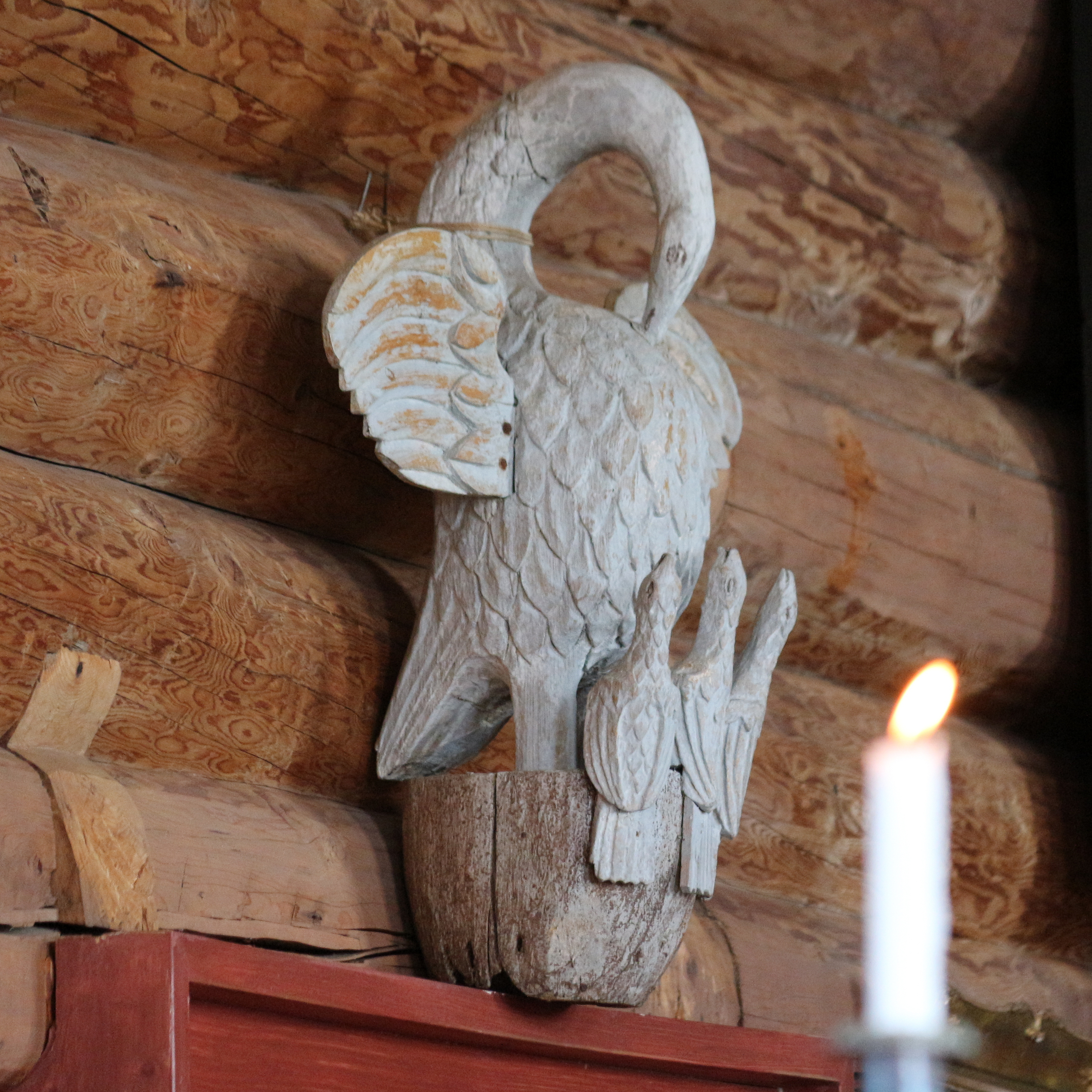 Leksvik church - birds sculpture.